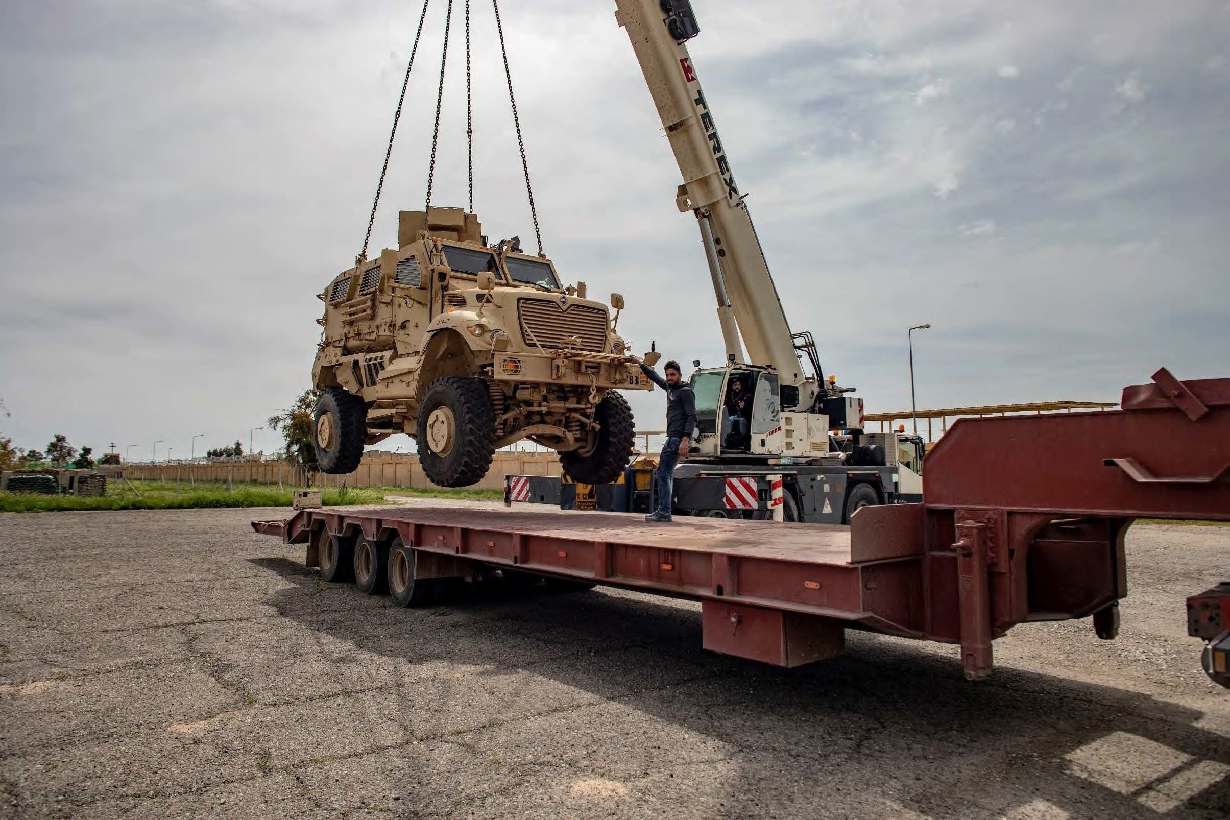 An Iraqi contractor helps align a Mine-Resistant Ambush Protected vehicle ontp a flatbed trailer at K1 Air Base, Iraq, March 21, 2020. The Coalition is adjusting its positioning in Iraq as part of long-planned adjustments to the force, due to Iraqi Security Force's success in the campaign against Daesh. The Coalition's military movements are conducted in coordination with the Government of Iraq. (U.S. Army photo by SPC. Kenneth Stroud)